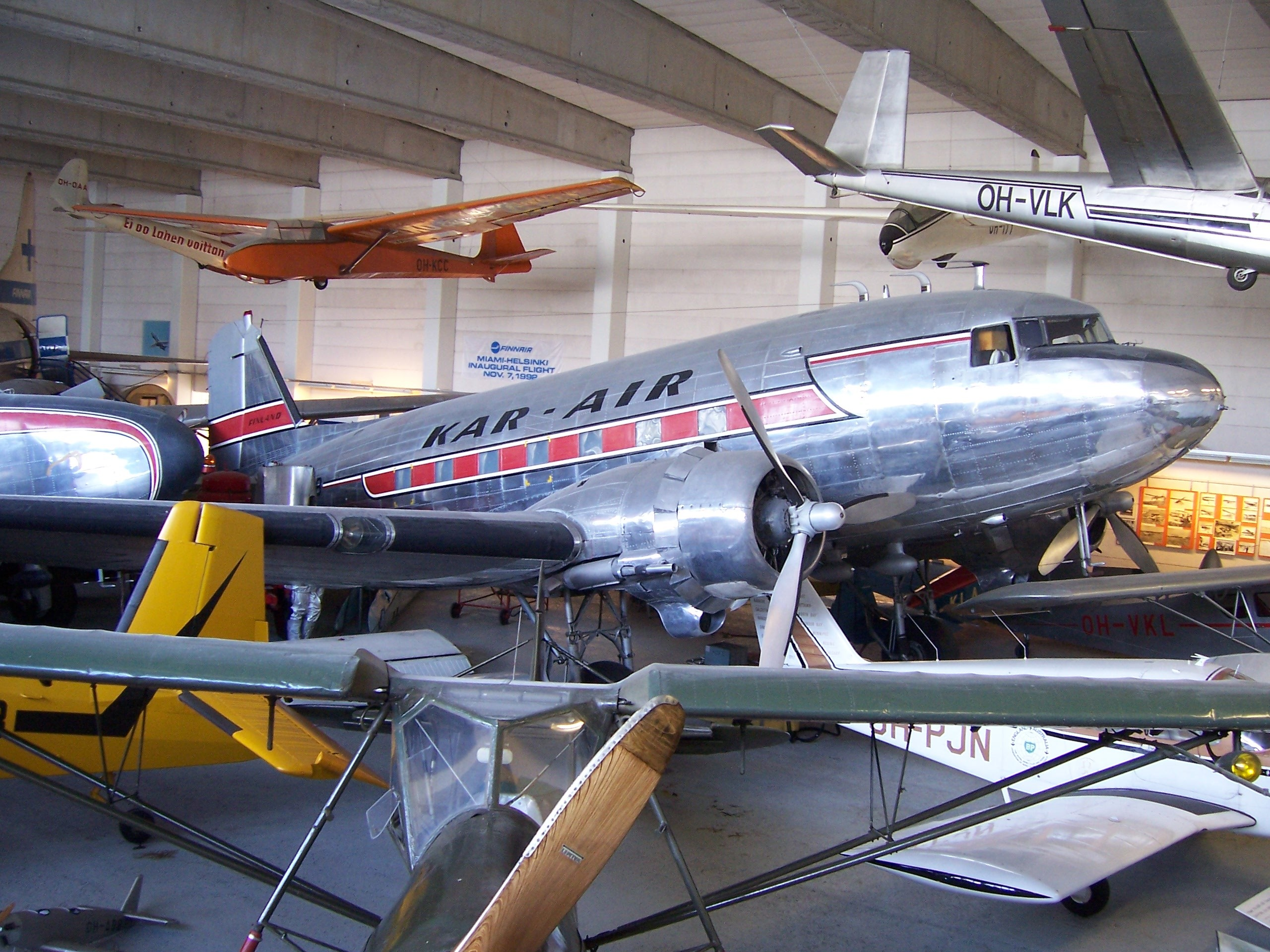 Finnish Aviation Museum exhibition hall 2